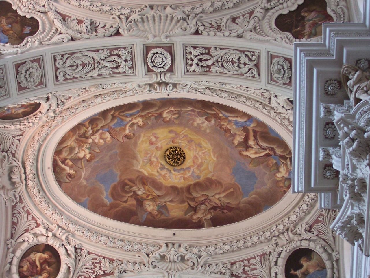 St. Stephen's Cathedral, Passau